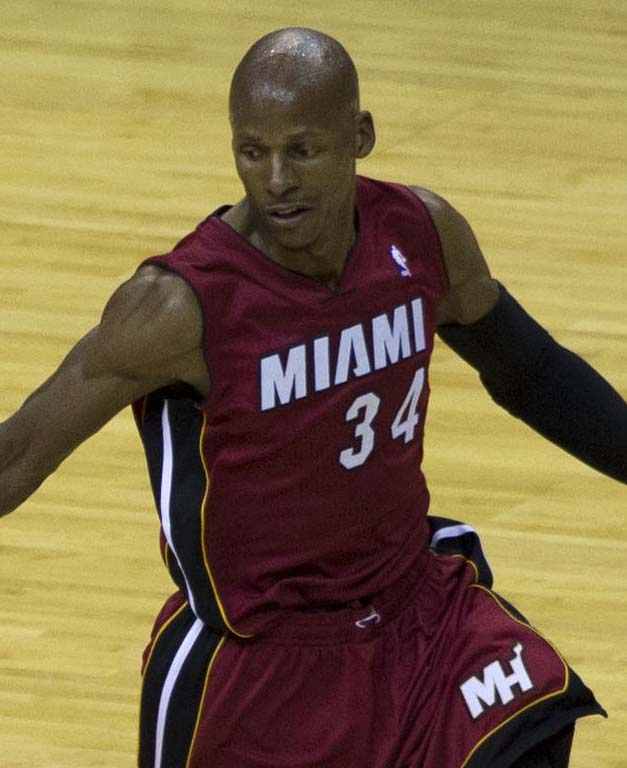 Ray Allen